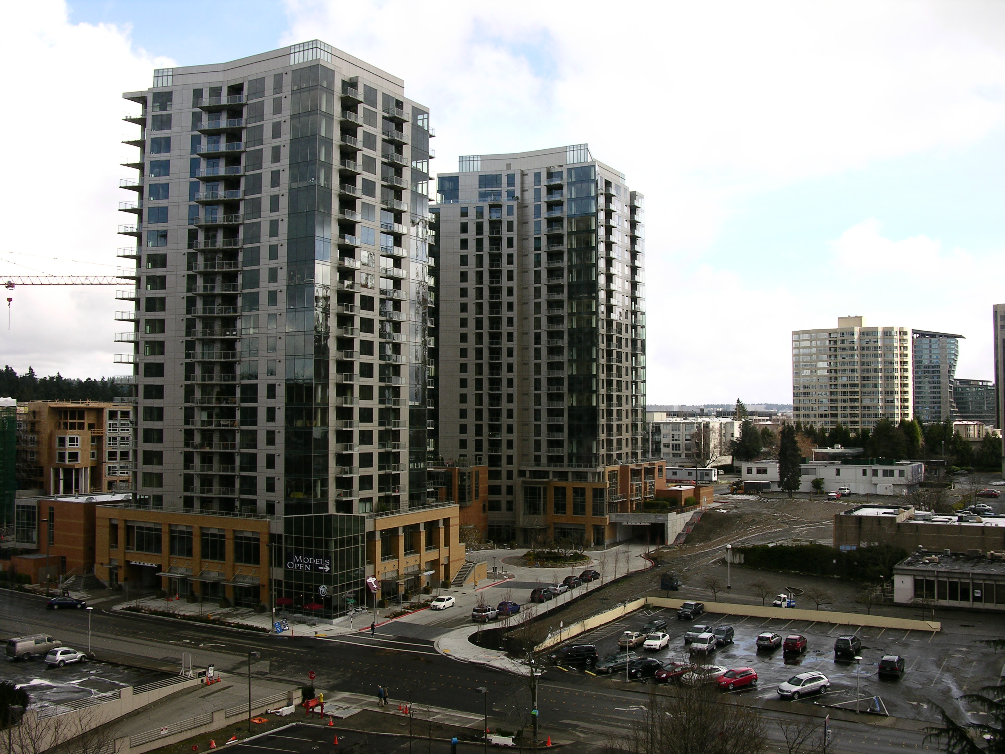 A picture of Washington Square in Bellevue Washington